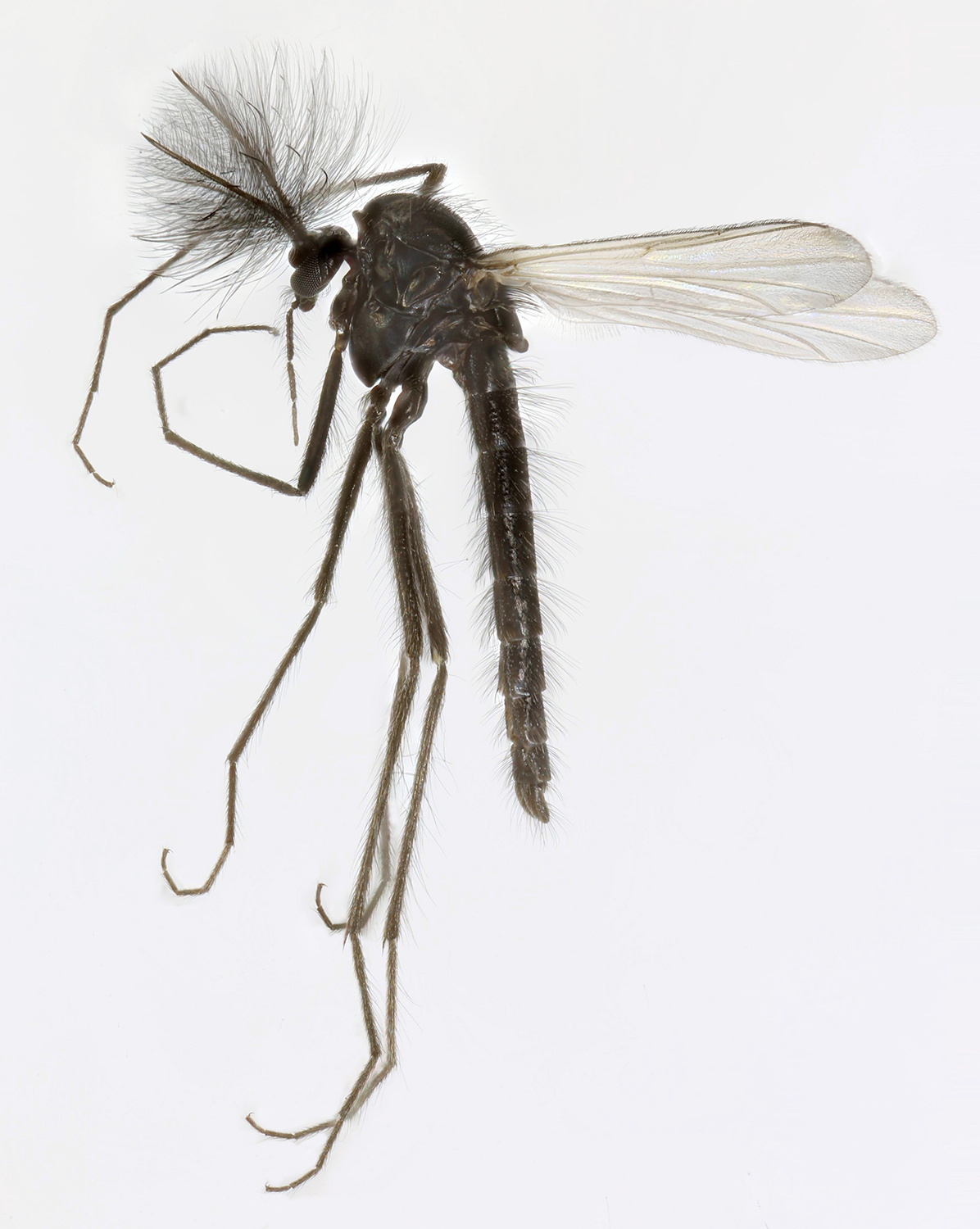 Metriocnemus picipes, Trawscoed, North Wales, Oct 2015 2